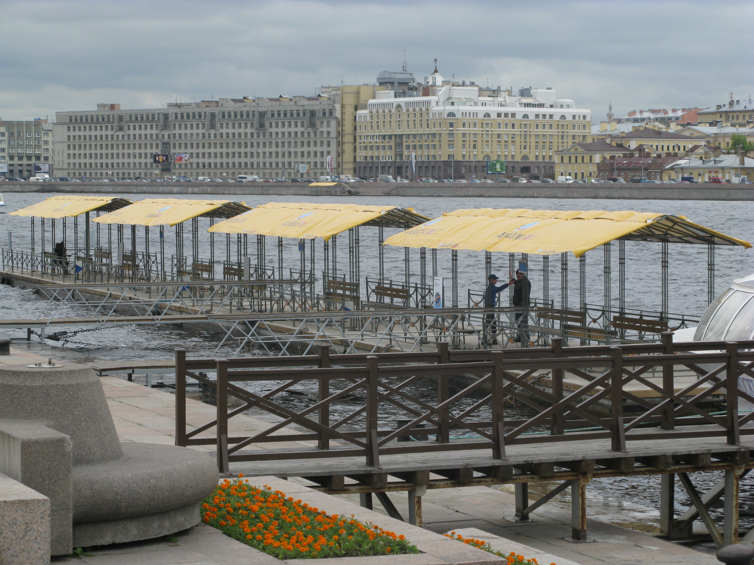 Aquabus station near the Linin square, Saint-Petersburg